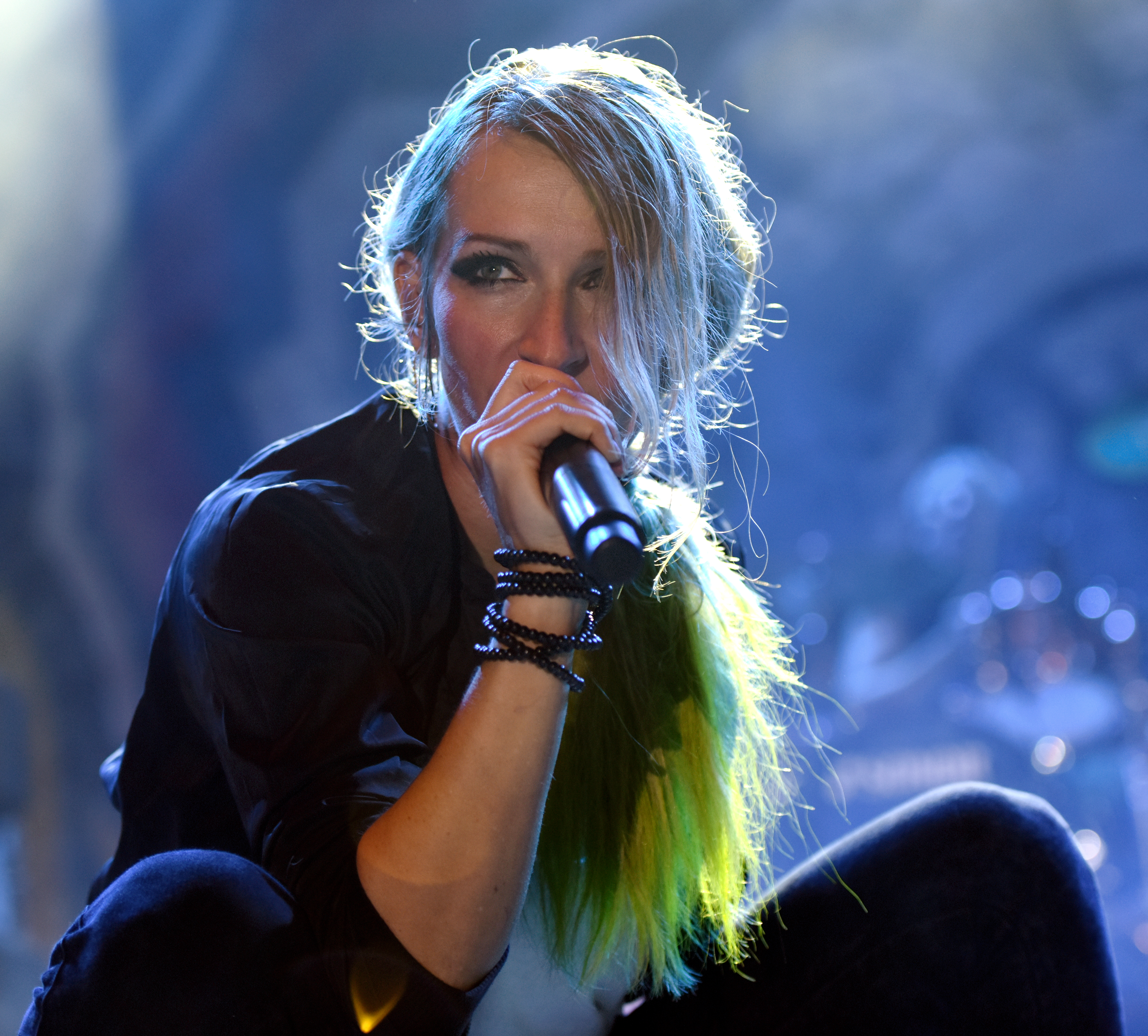 Guano Apes at the Open Flair festival in Eschwege, Germany, 2015.